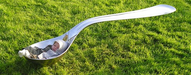 Spoon bench by Mark Reed